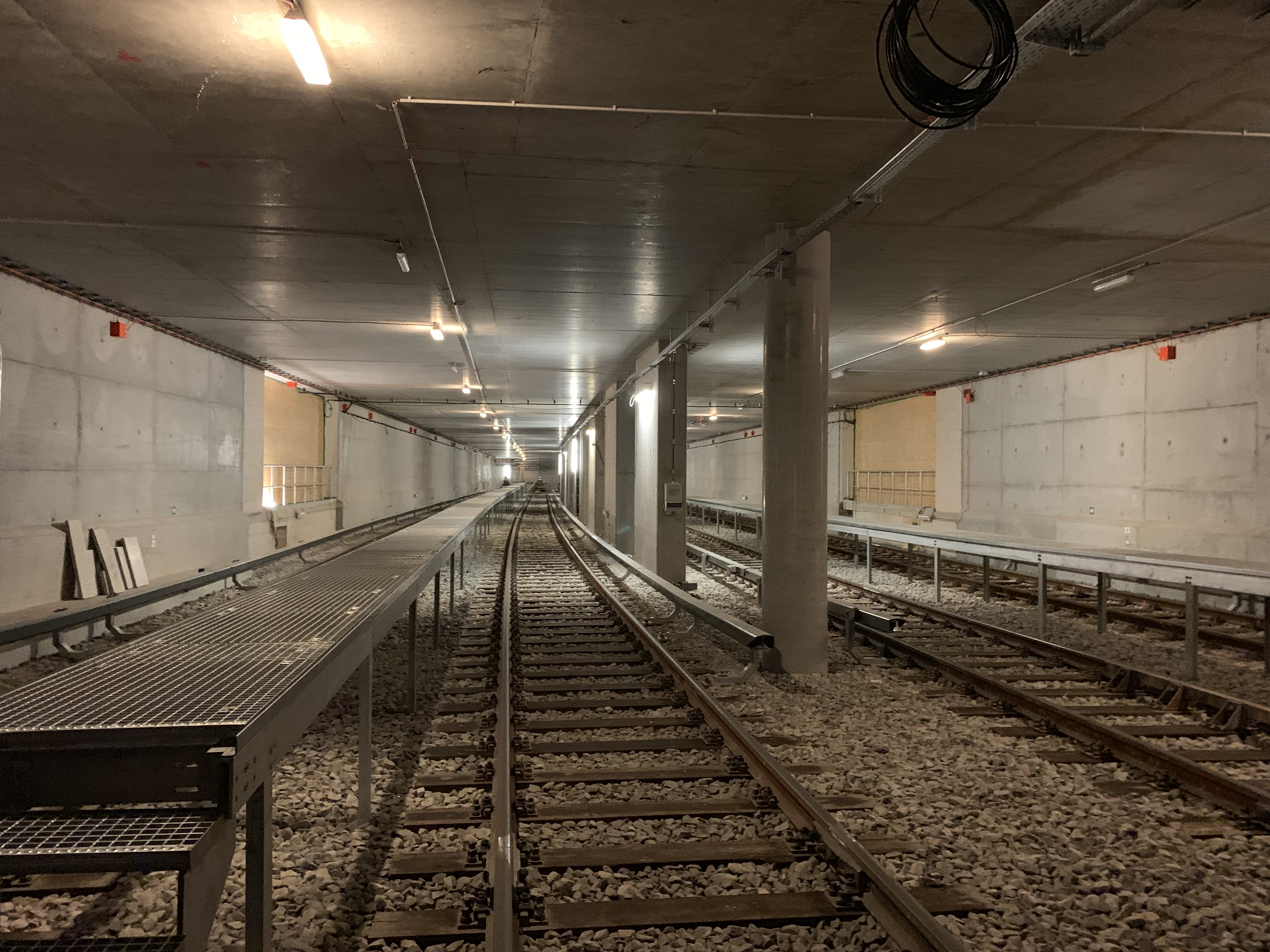 Rotes Rathaus subway station (sidings)